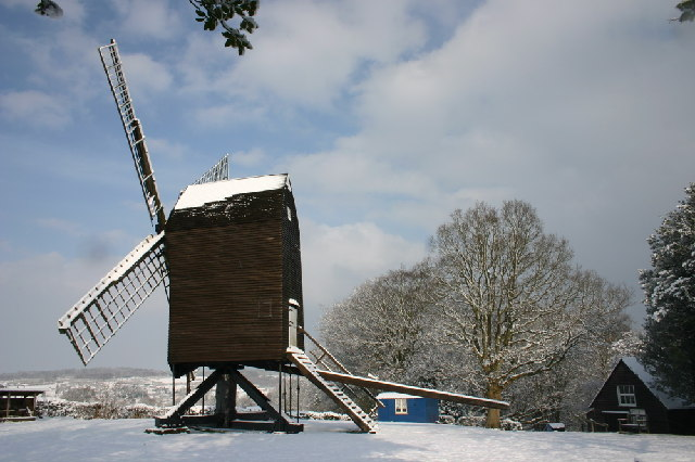 Nutley Windmill, East Sussex, in snow